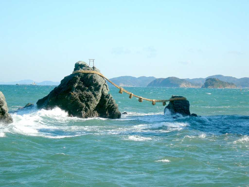 "Tateishi"(立石) is known as "Meotoiwa"(夫婦岩), in Futami-cho, Ise city, Mie prefecture near Ise shrine.